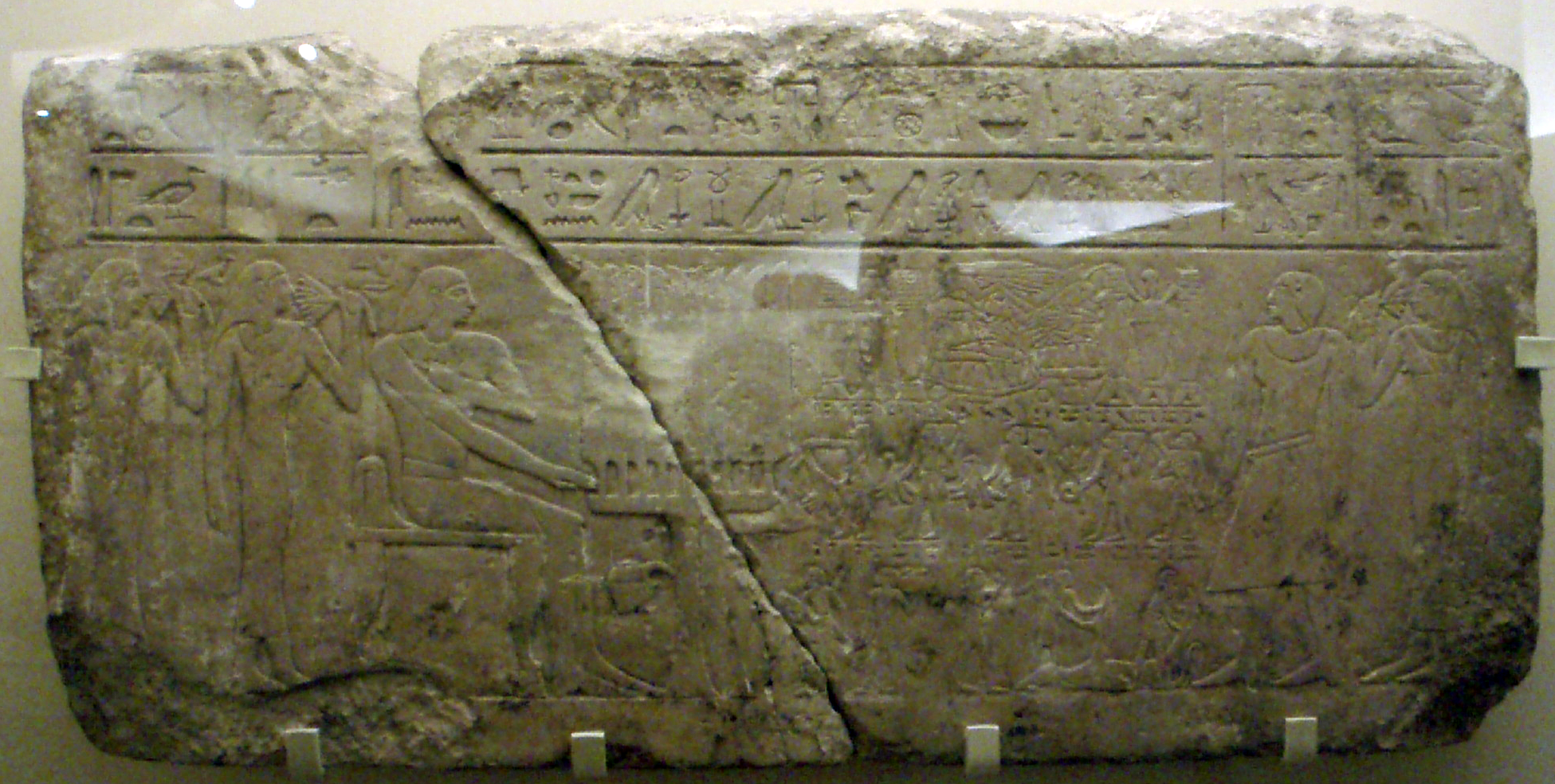 Tomb relief of a Iny and his family receiving offerings from their servants. From the 10th dynasty, possibly from Saqqara.